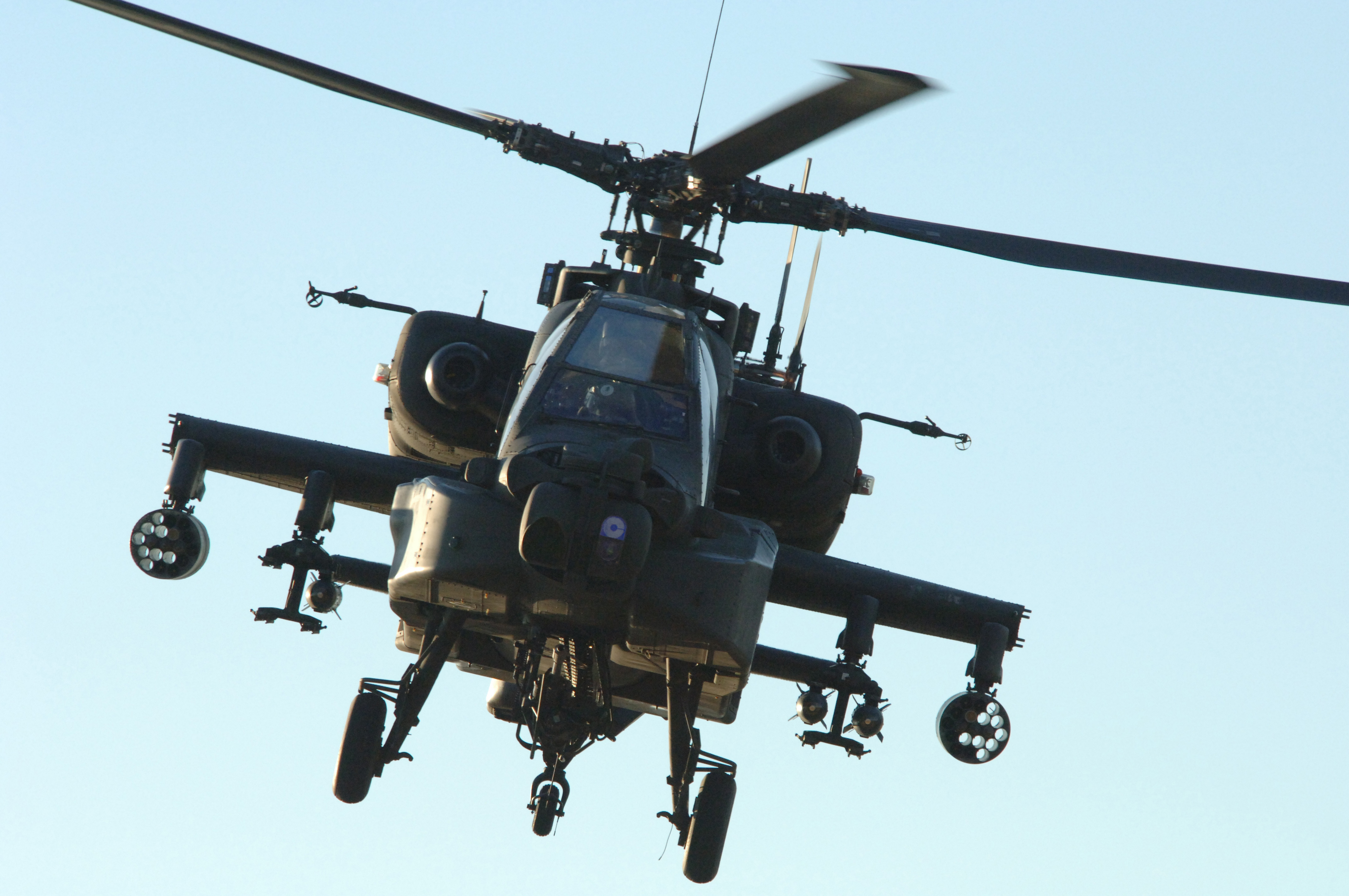 An Army AH-64 Apache helicopter provides air support for U.S. Army soldiers from the Alpha Battery, 3rd Battalion, 320th Field Artillery Regiment, and Iraqi army soldiers from the 1st Battalion, 1st Brigade, 4th Division, during a raid in FOB (Forward Observation Base) Remagen, Iraq, on Feb. 24, 2006.